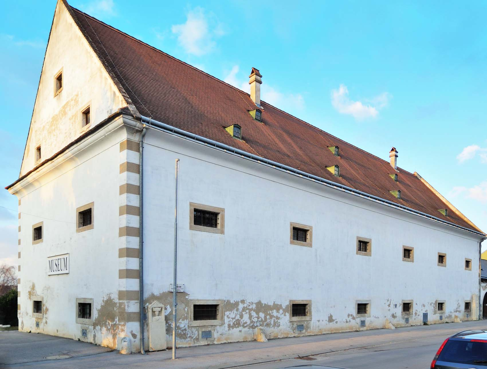 Former granary and now museum in Mannersdorf am Leithagebirge, Lower Austria, Austria